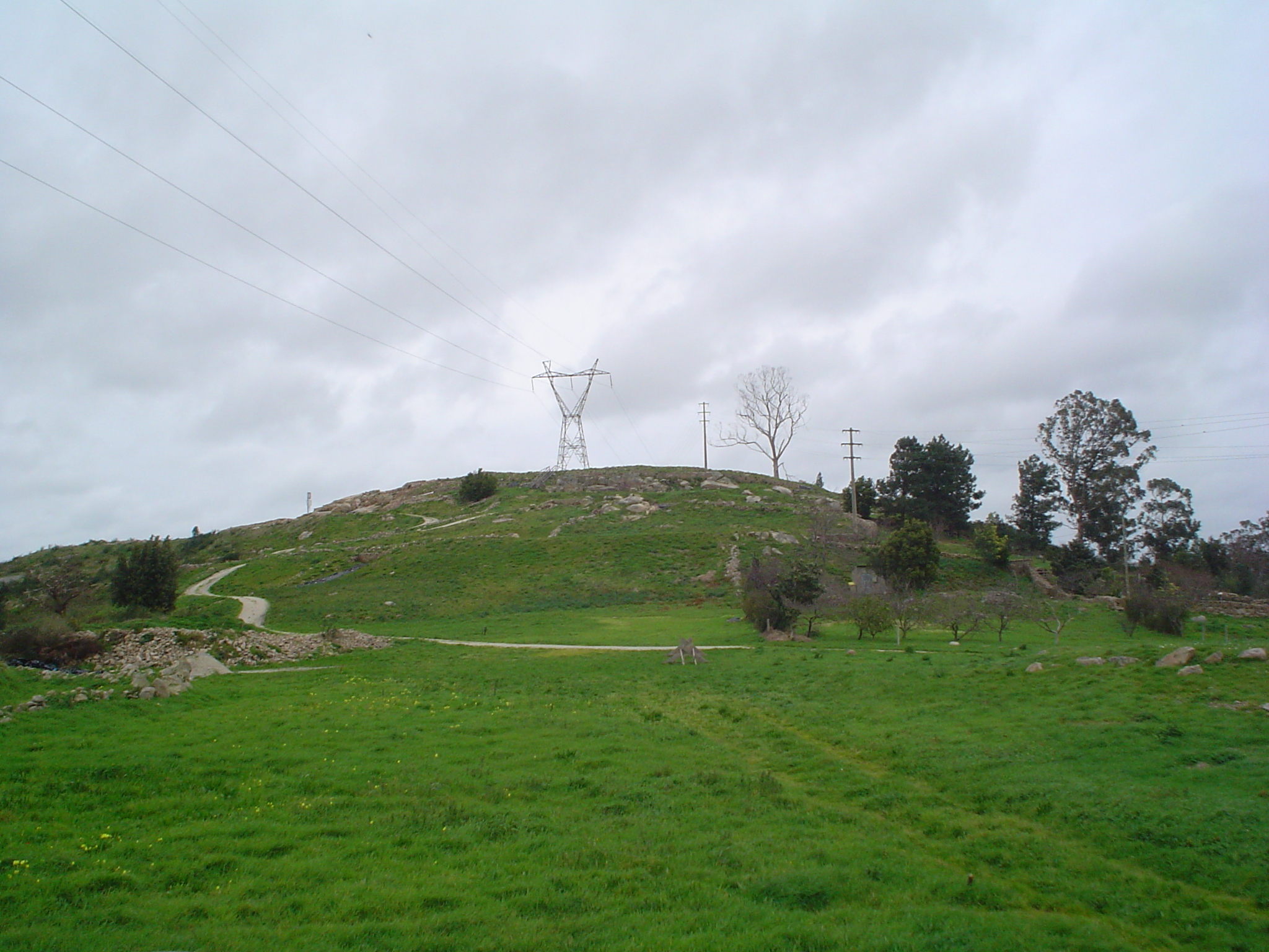 General view of the Castro de Elviña: remnant of a pre-Roman-era military structure in A Coruña, Galicia, Spain